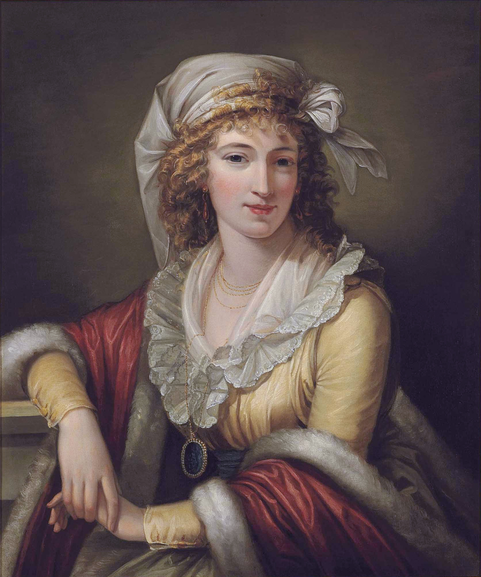 Anna Maria Aloisna Rosa Ferri, the artist's wife